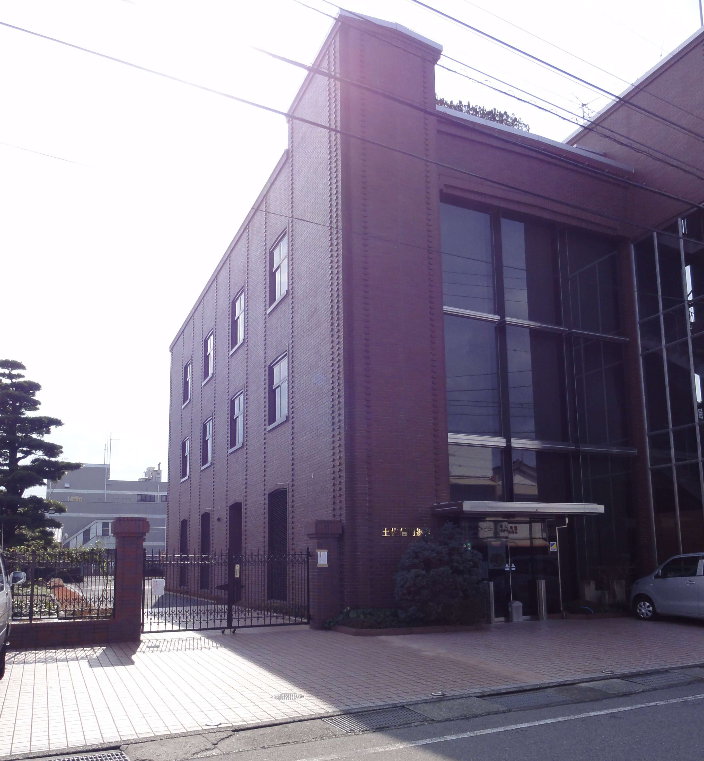 Headquarters of Tosa credit union Kochi Pref., Japan